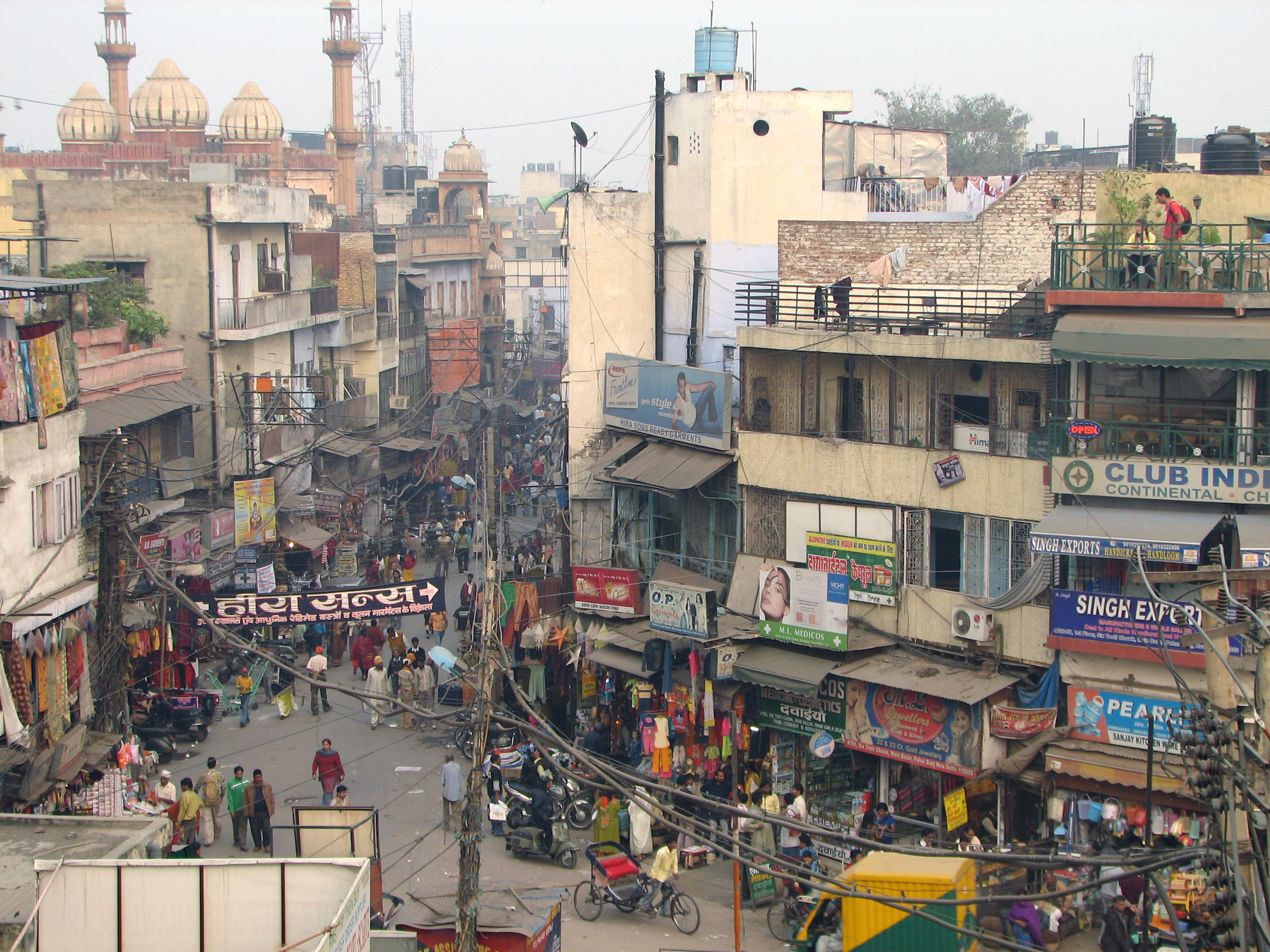 The busy, chaotic streets of the Paharganj area of Delhi.